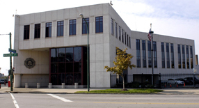 A picture of the outside of the FBI Buffalo Field Office (The following is the description taken from image metadata on the FBI Buffalo Website) Orientation of image: 1 File change date and time: 2010:04:09 12:36:54 Software used: Adobe Photoshop CS3 Windows